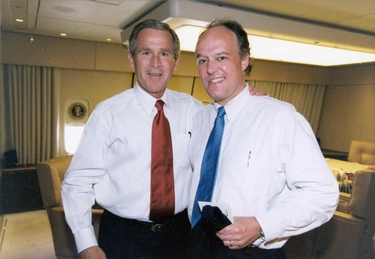 Senator Fitzgerald accompanies President Bush aboard Air Force One during a recent trip to Illinois.